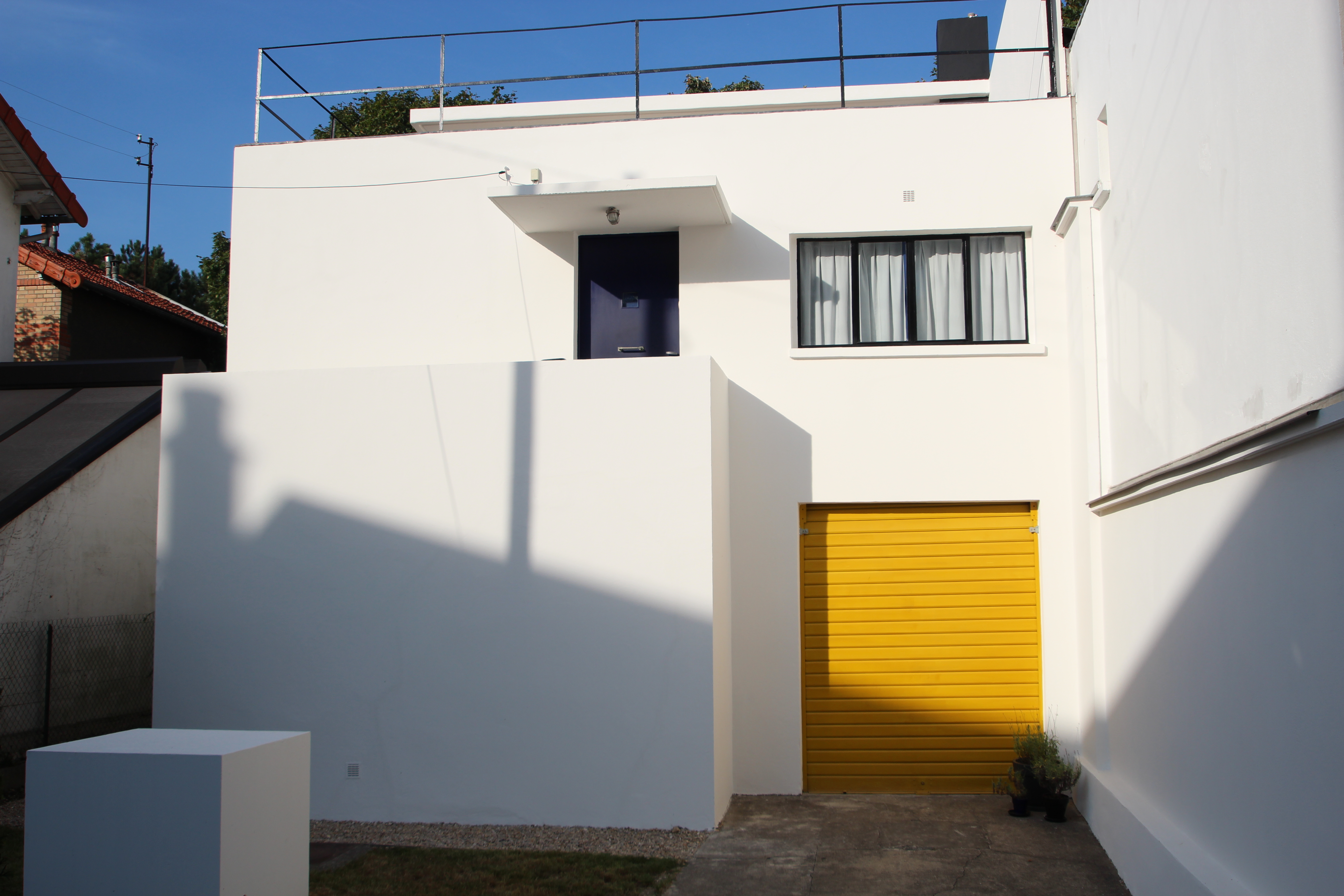 Villa Van Doesburg located 29 Charles-Infroit street in Meudon, France. . Object location48° 48′ 22.94″ N, 2° 14′ 41.37″ E